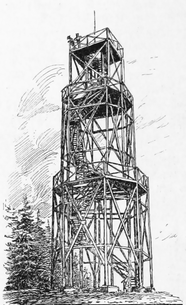 Dambergwarte in Sankt Ulrich bei Steyr